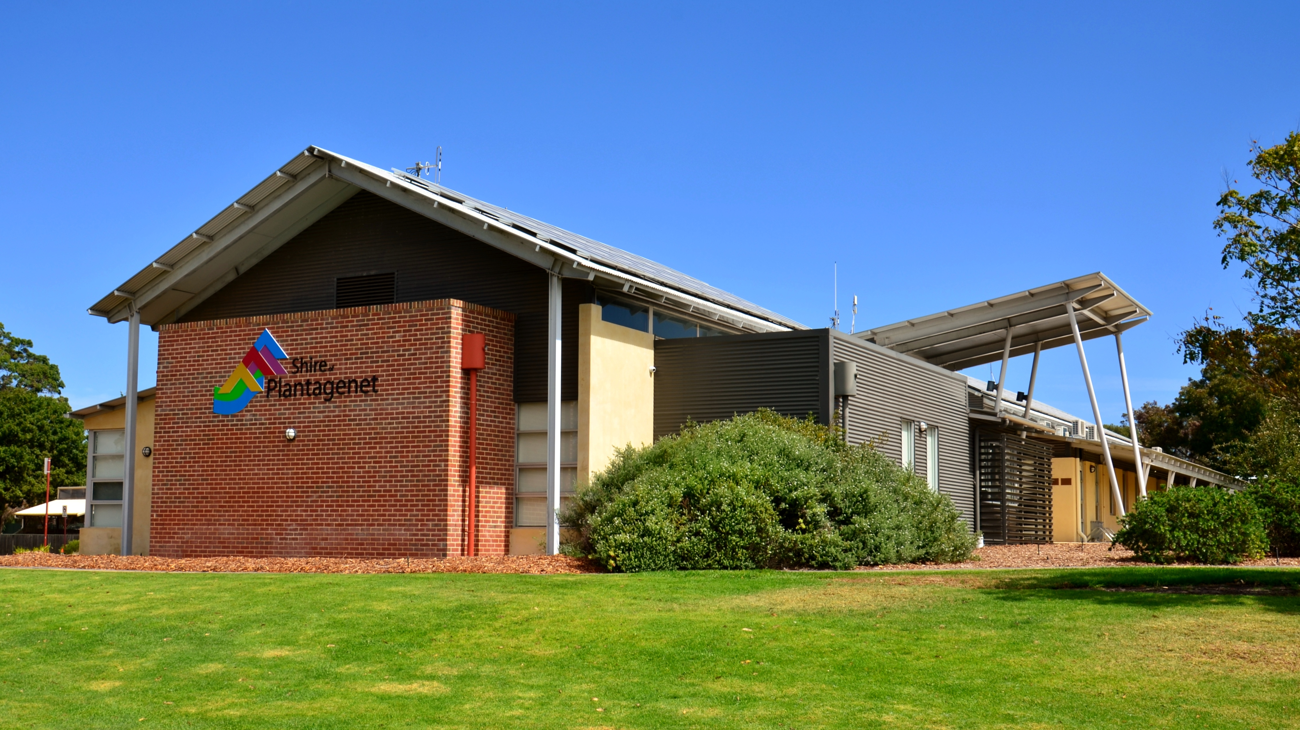 View of the Shire of Plantagenet shire offices, Lowood Road, Mount Barker, Western Australia